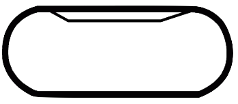 Mapa do New Hampshire Motor Speedway